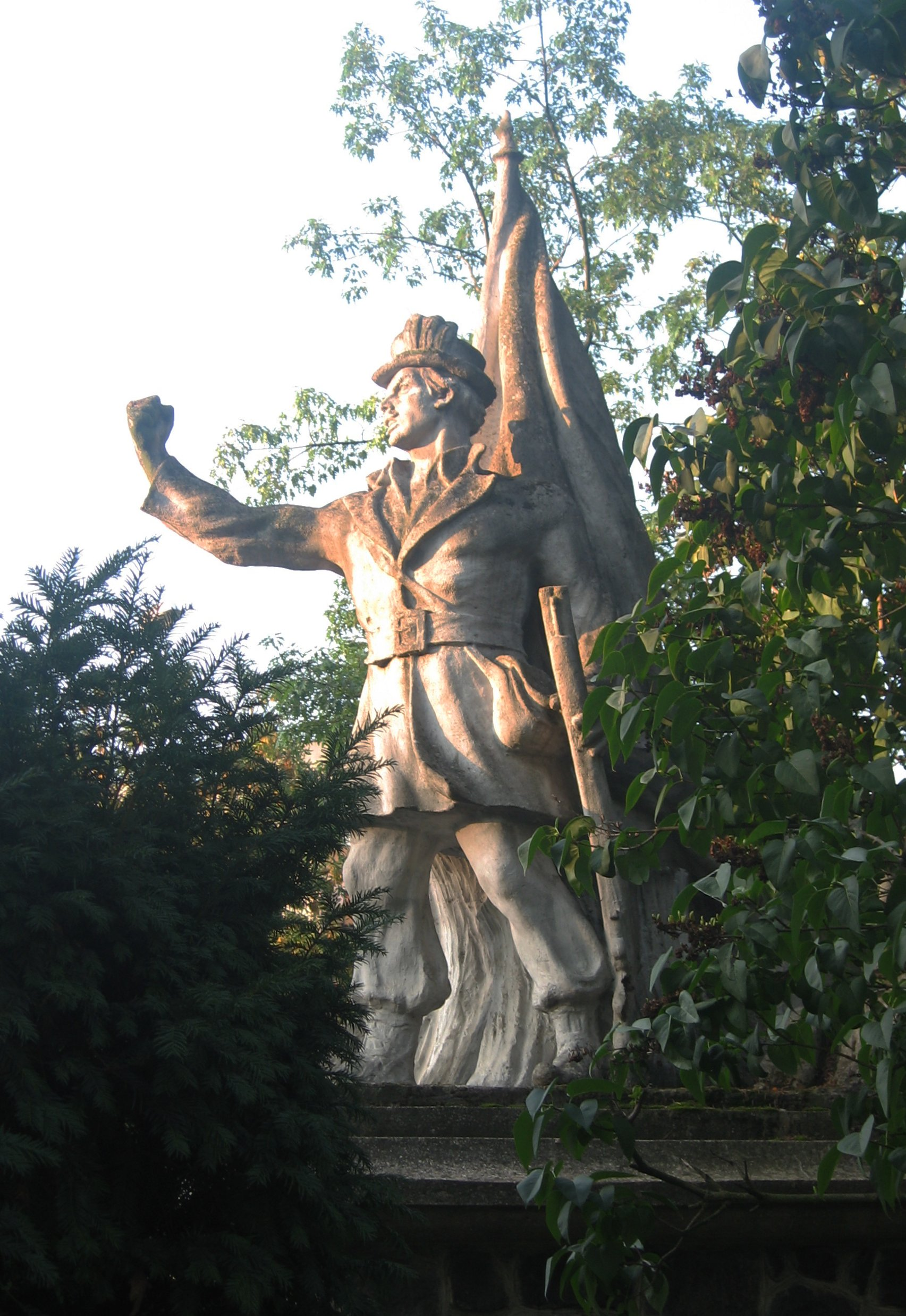 Monument of Stach Konwa, legendary Kurp hero, in Łomża, Poland